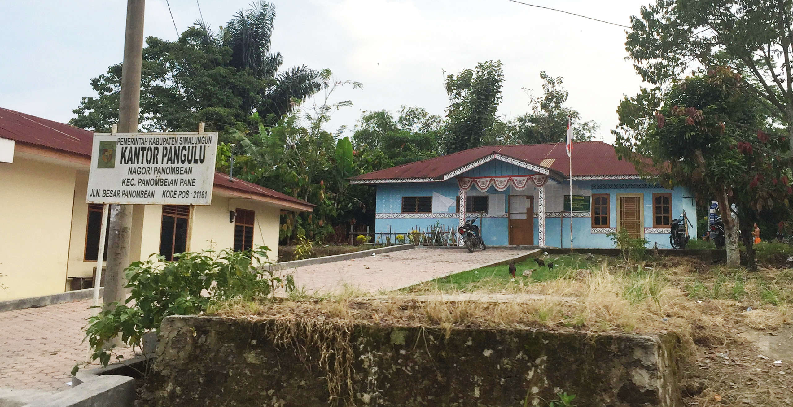 Office of Panombeian, Panombeian Panei, Simalungun